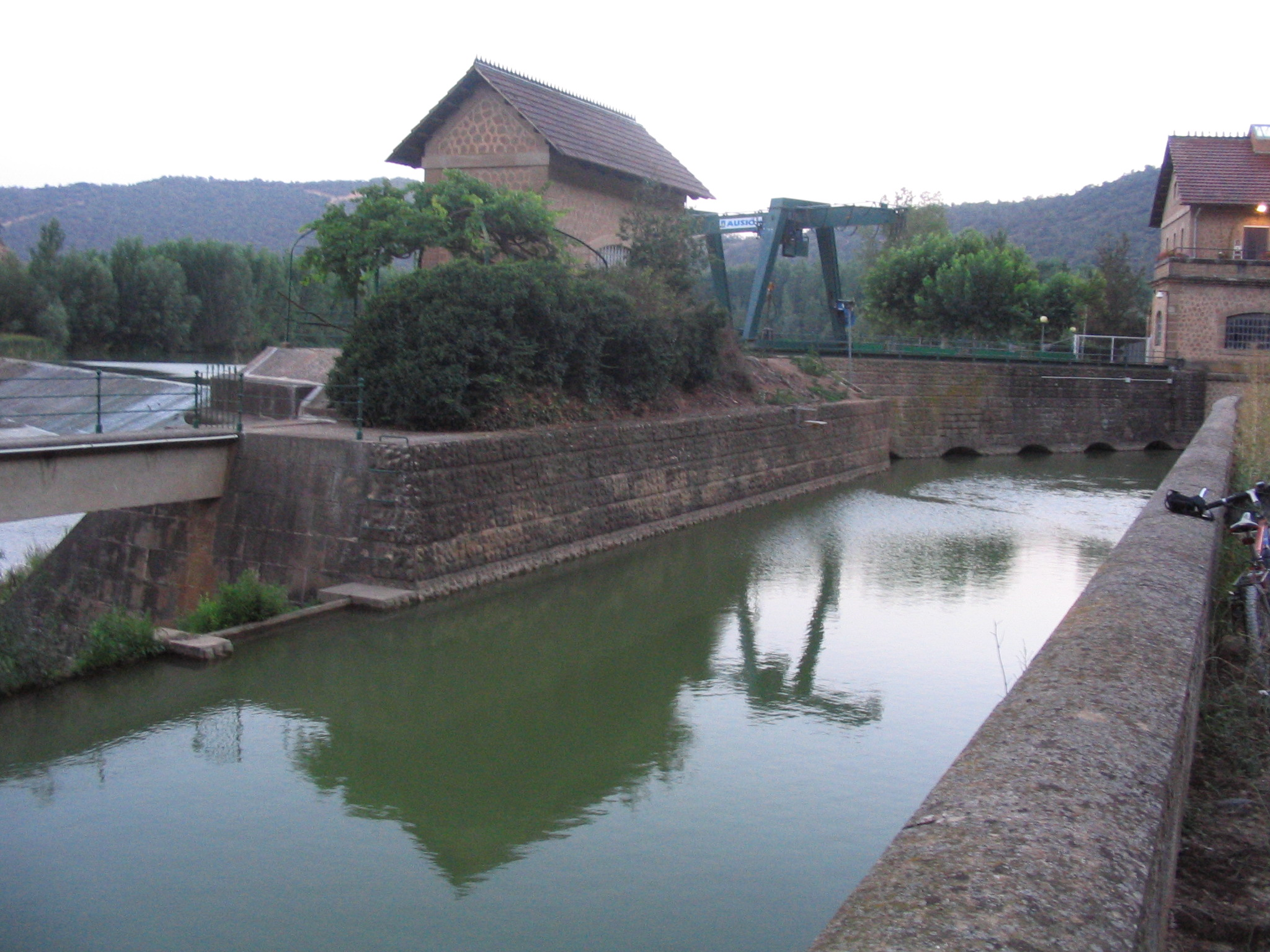 Canal d'urgell. Starting point.